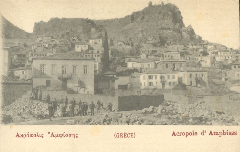 View of Amfissa in a postcard of 1918.